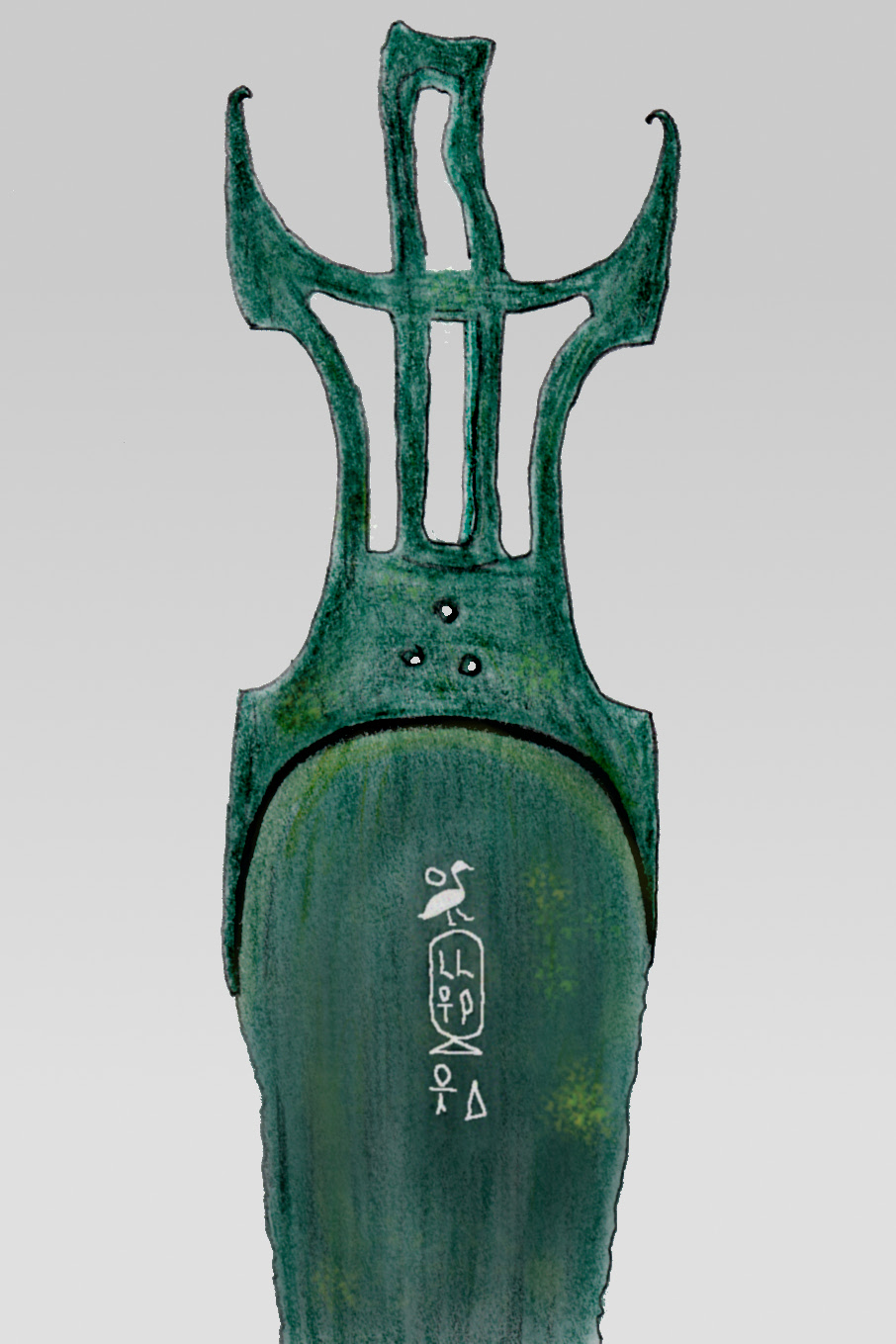 Drawing of the upper part of an ancient Egyptian dagger bearing the name of pharaoh Bebiankh (the pommel is missing). Bronze from Naqada, reign of Bebiankh, 16th Dynasty, Second Intermediate Period. British Museum EA66062.